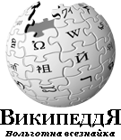 Logo of the Siberian Wikipedia